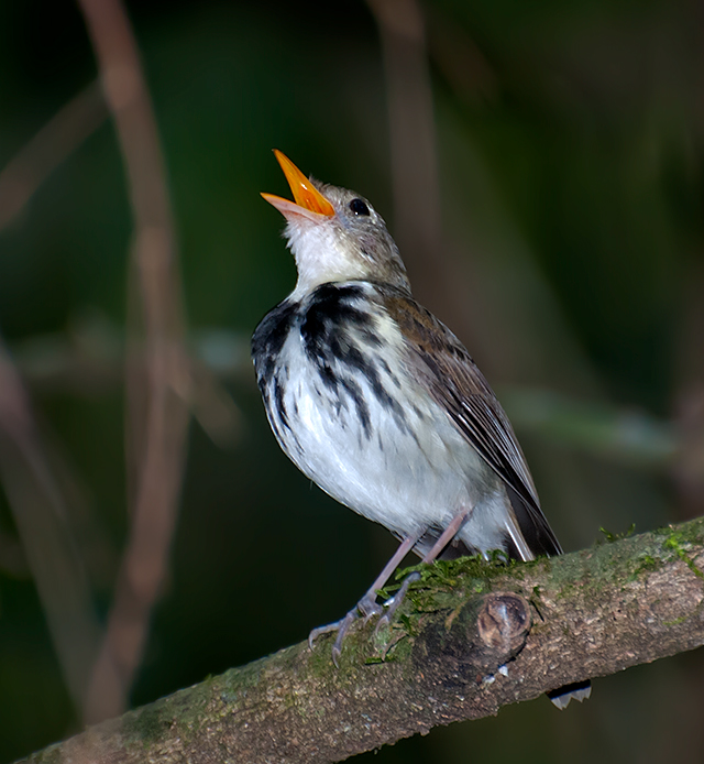 A Southern Antpipit in Extrema, Minas Gerais, Brazil.